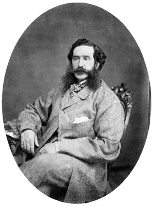 Charles Rene Leonidas d'Irumberry de Salaberry in Quebec City, Quebec, Canada. He was a French-Canadian militia officer, founding commanding officer of Les Voltigeurs de Québec, and civil servant noted for his role in negotiating on the behalf of the Government of Canada during the Red River Rebellion of 1869–1870.